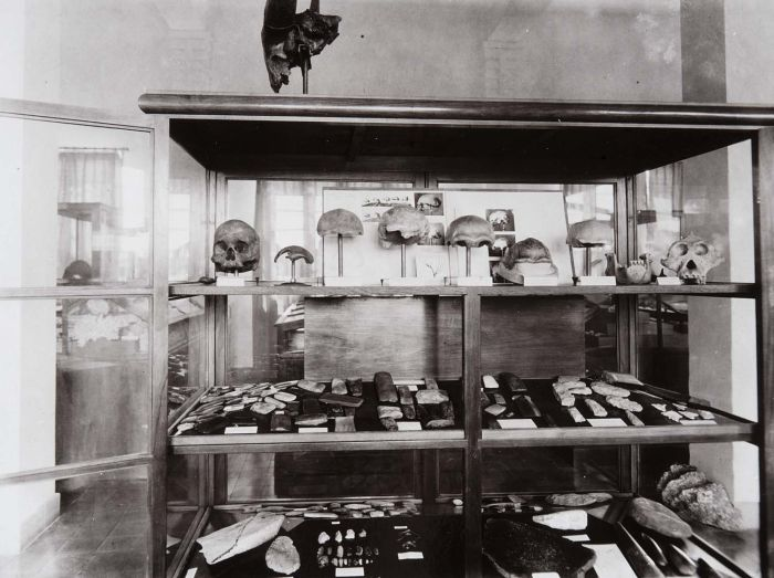 Display case with prehistorical skulls and objects at the Geological Museum